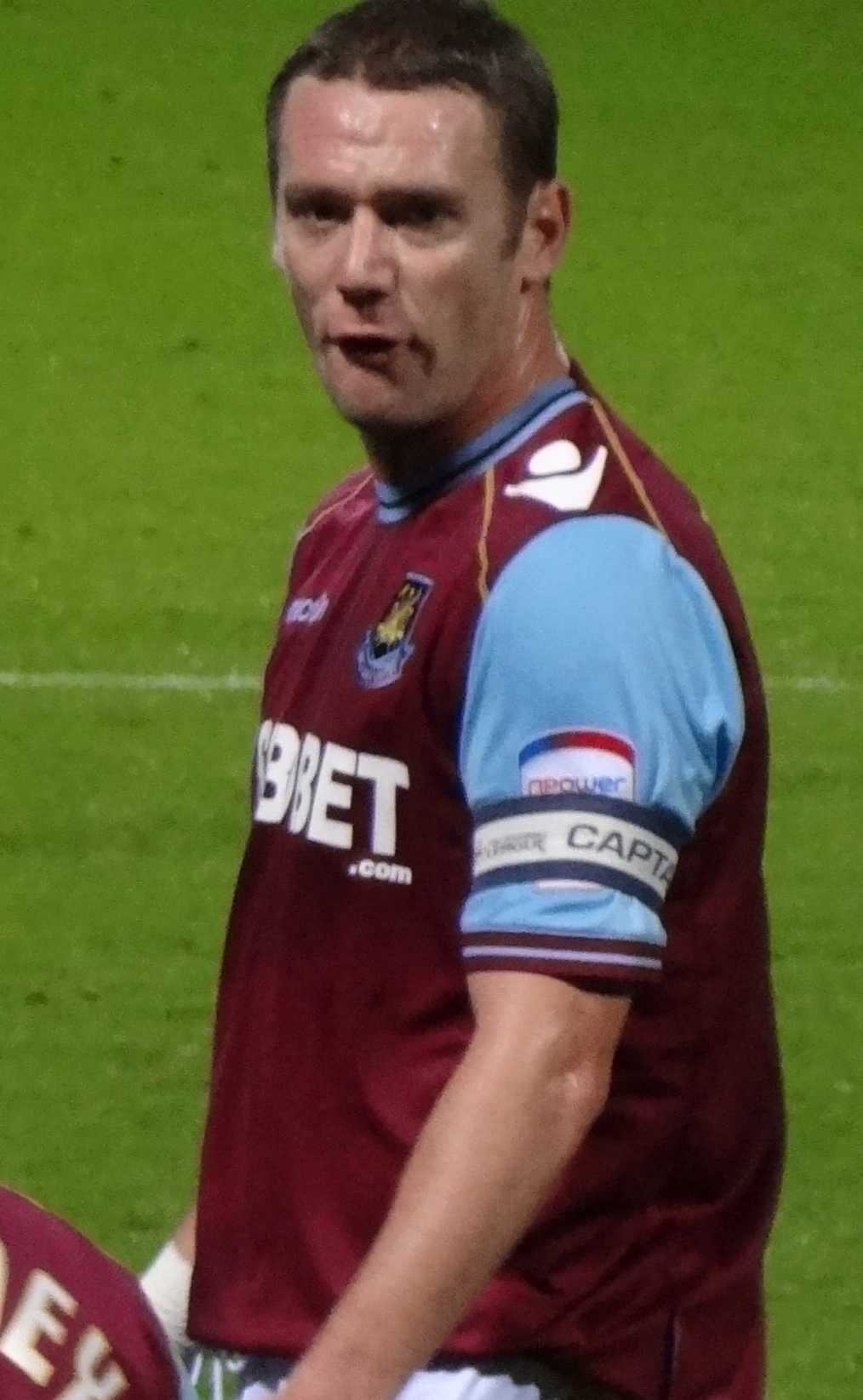 Kevin Nolan, midfielder and West Ham United captain.